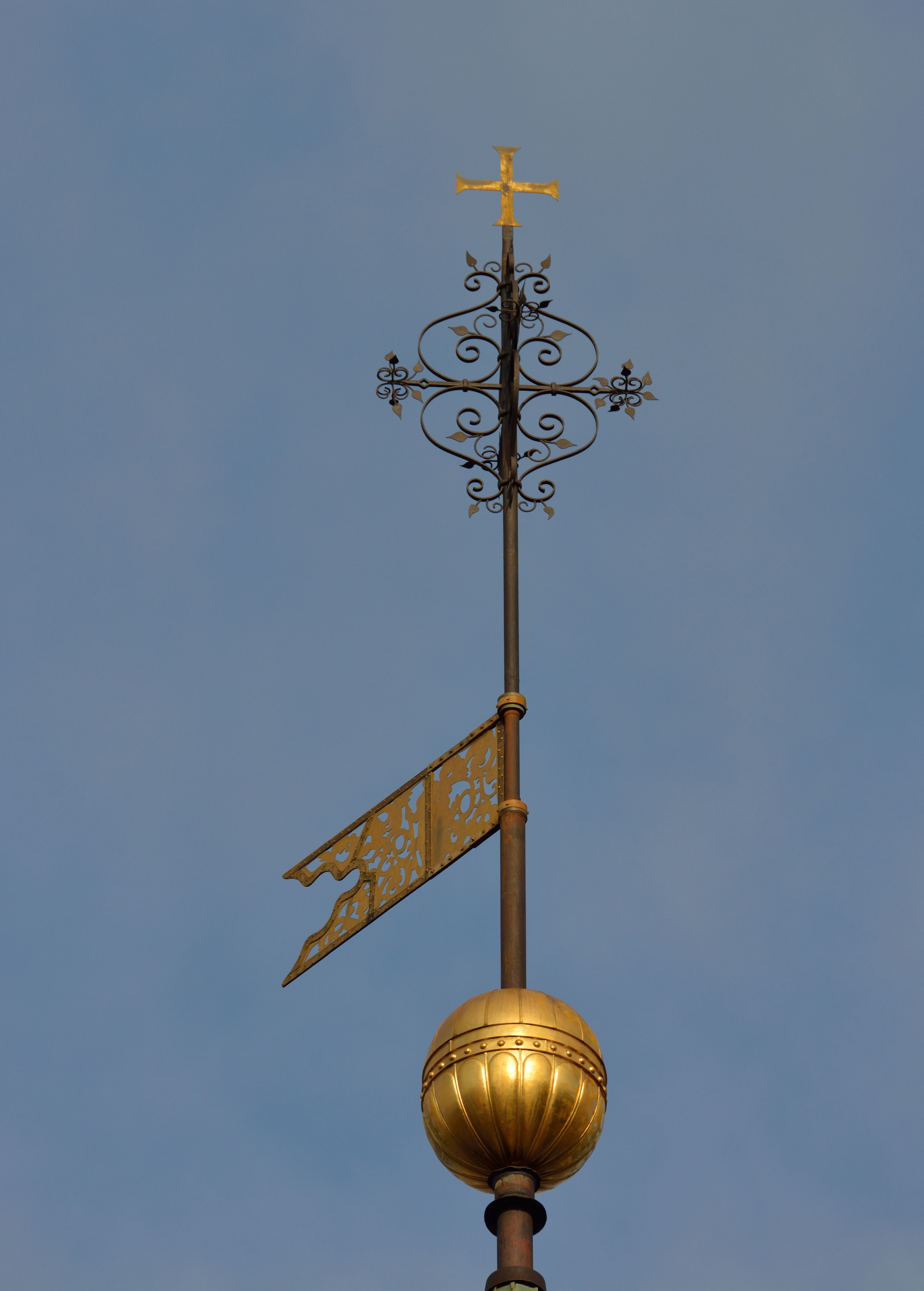 Cross and weather vane of St. Nicholas' church